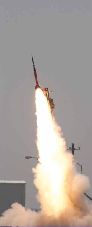 Launch of a Mesquito sounding rocket on 6th or 7th May 2008